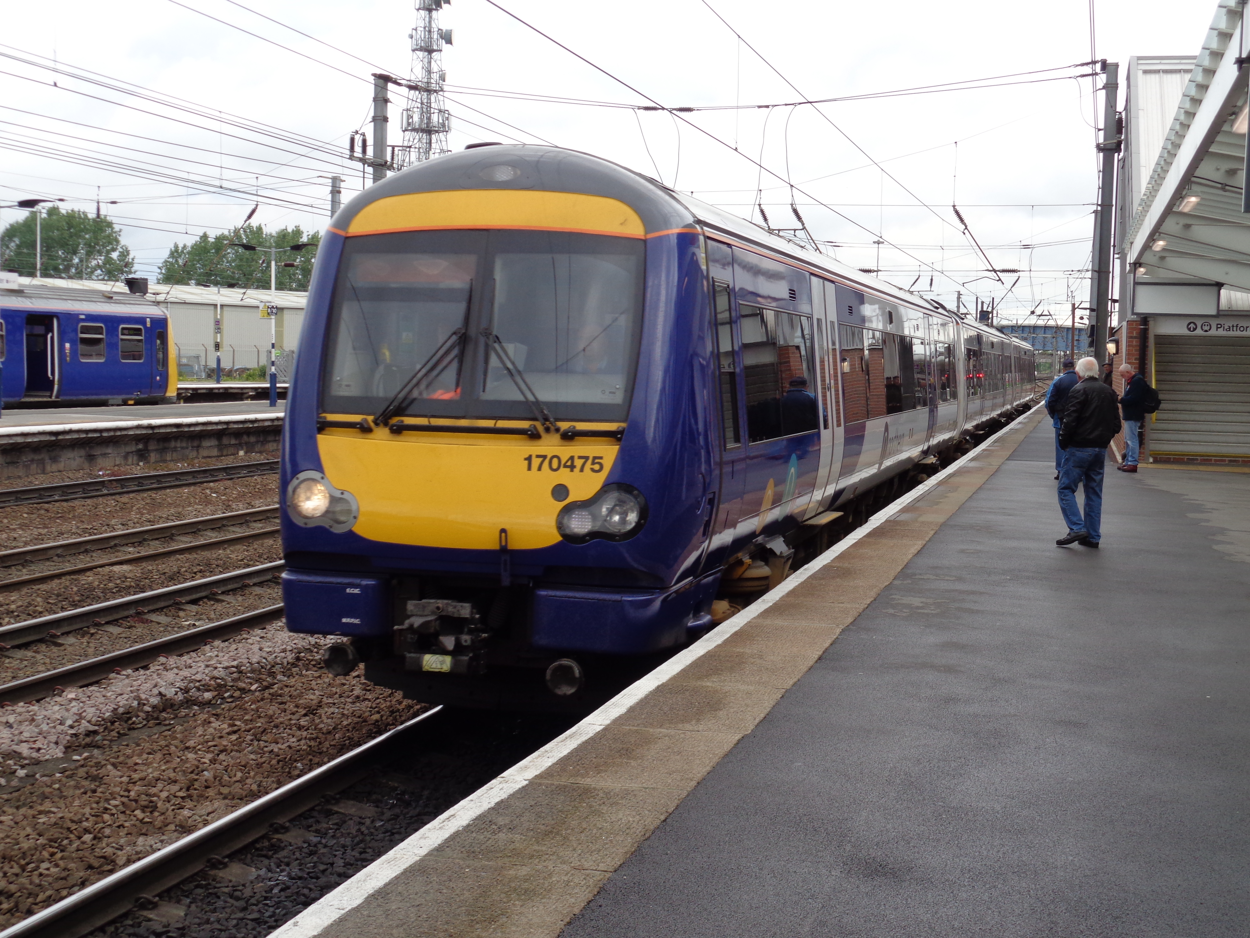 170475 at Doncaster